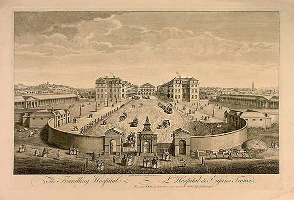 An early print of the Foundling Hospital.The foundling hospital was founded by Thomas Coram and the idea of a hospital for less fortunate children has continued up to now but it is most commonly referred to as a care home. The word foundling means a small child and children and babies in baskets were dropped off and left on the door step to be collected by nurses.